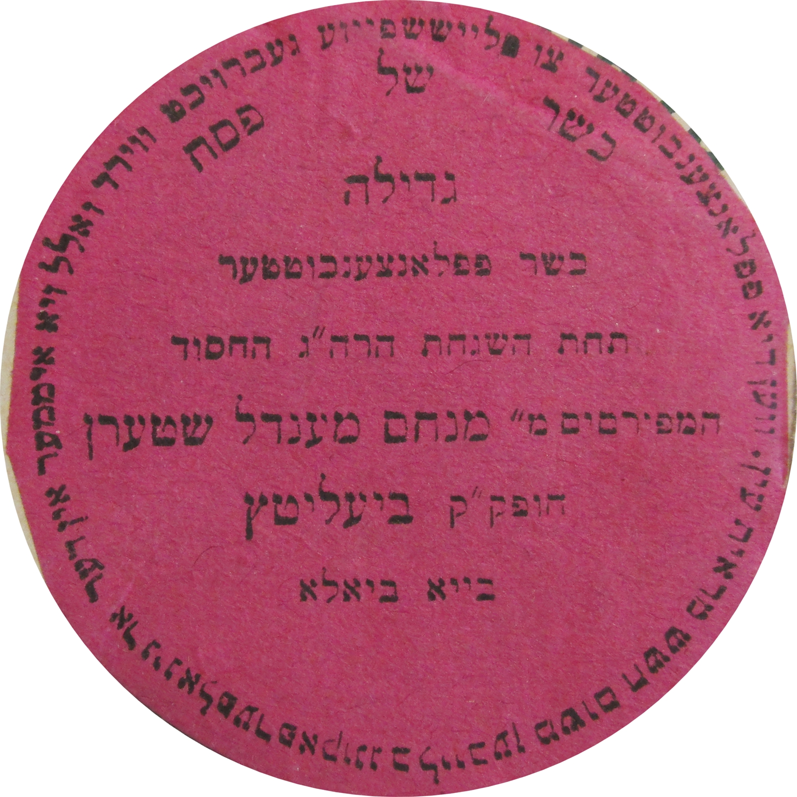 Kosher for Pesach certificate of rabbi Menachem mendel Stern from Bielsko (Bielitz) 1904